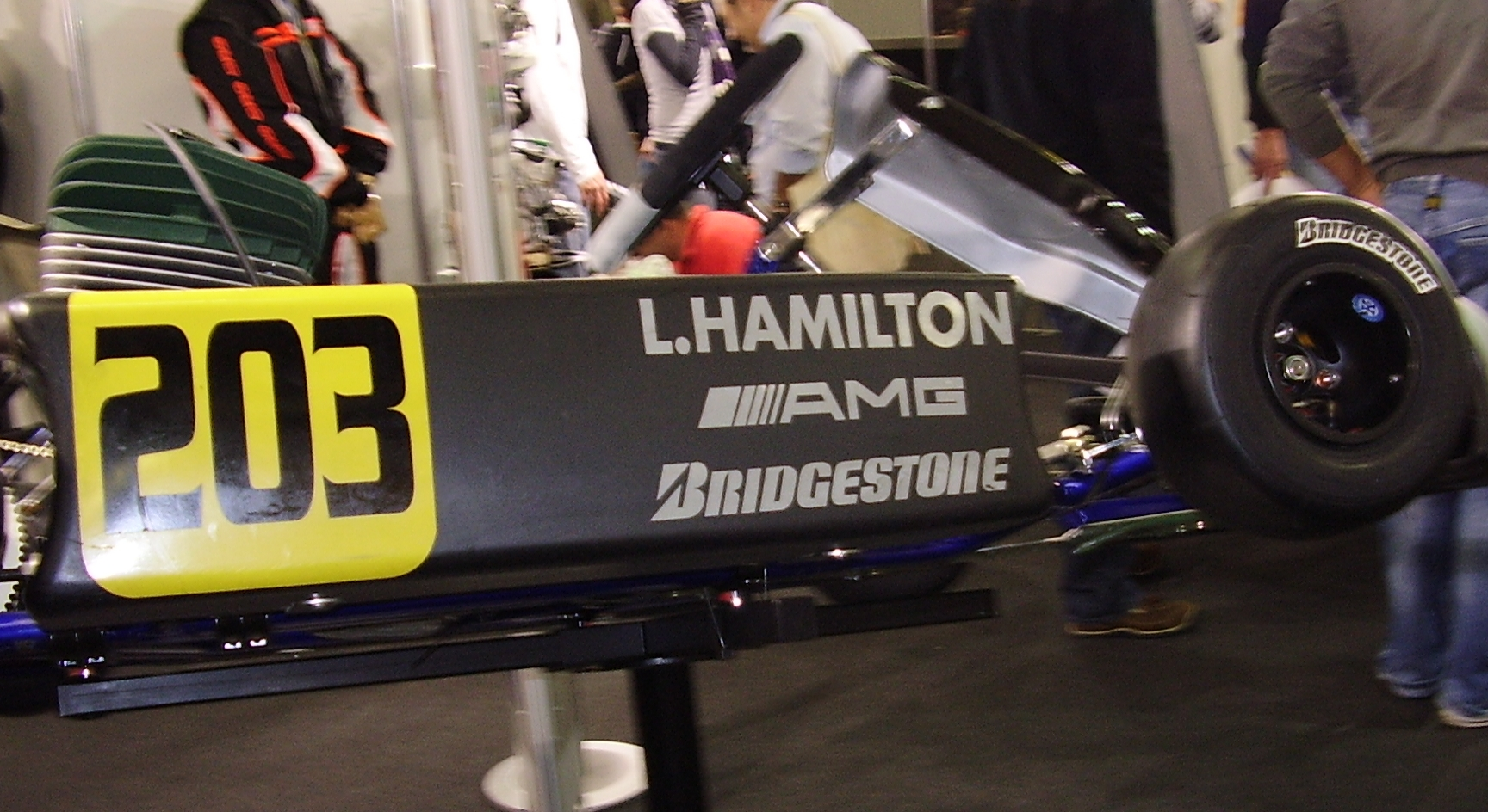 Detail of a kart in exposition in Offenbach 2008